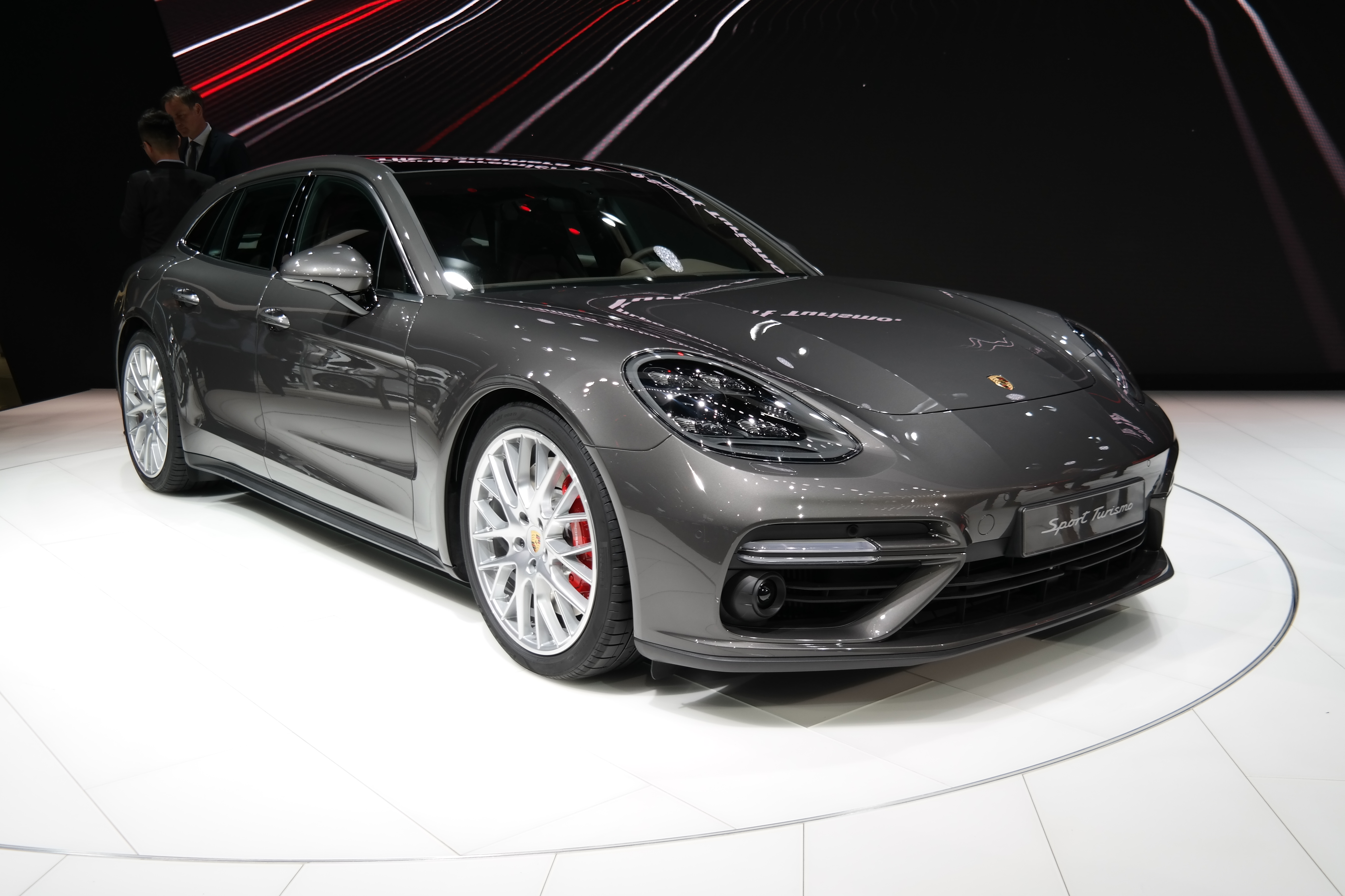 Geneva Motor Show 2017 (photo taken on the first press day)